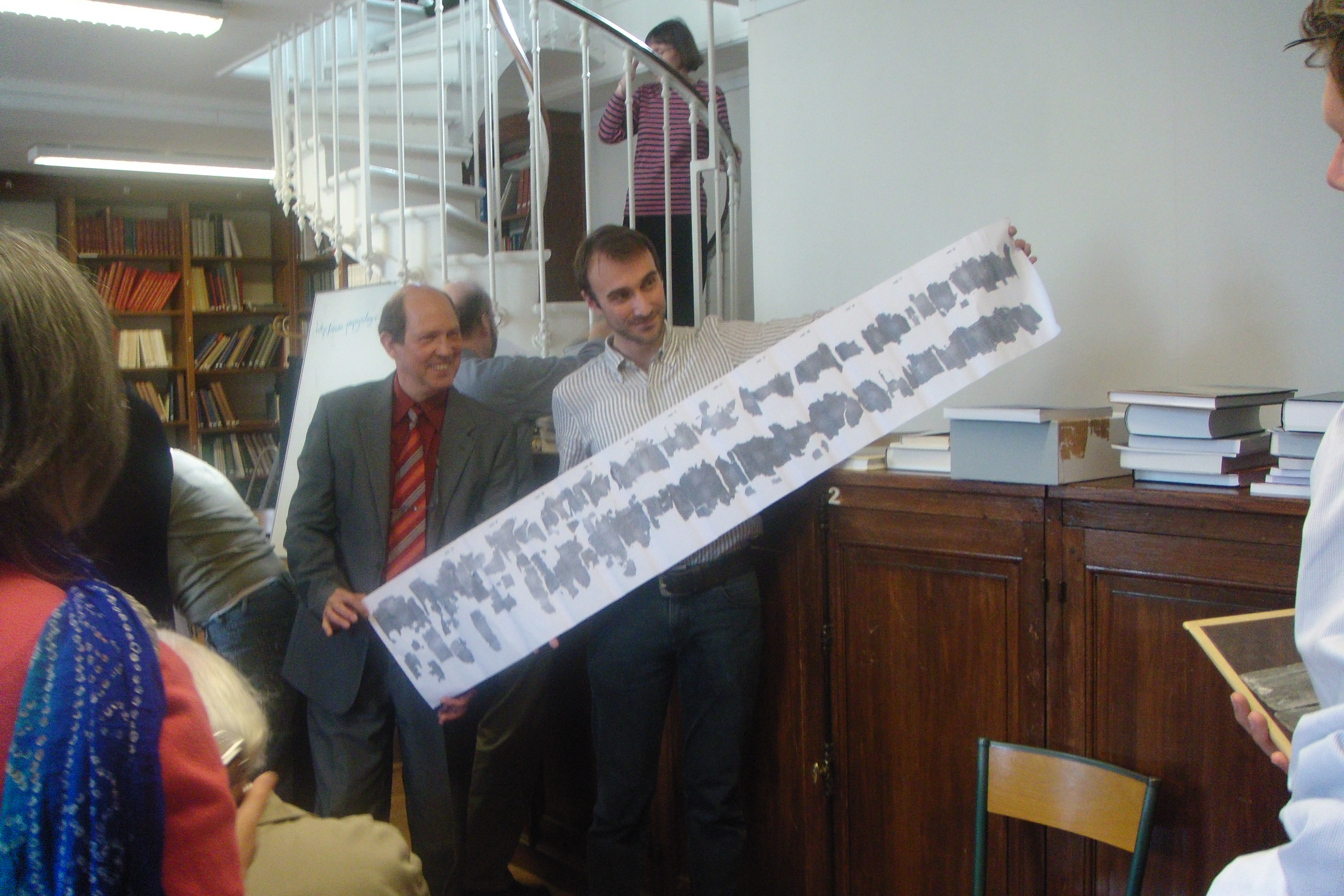 This photograph was taken my me on 20th June 2009 at the Sorbonne in Paris. It shows fragments assembled from a burnt scroll found in the Villa of the Papyri in Herculaneum.